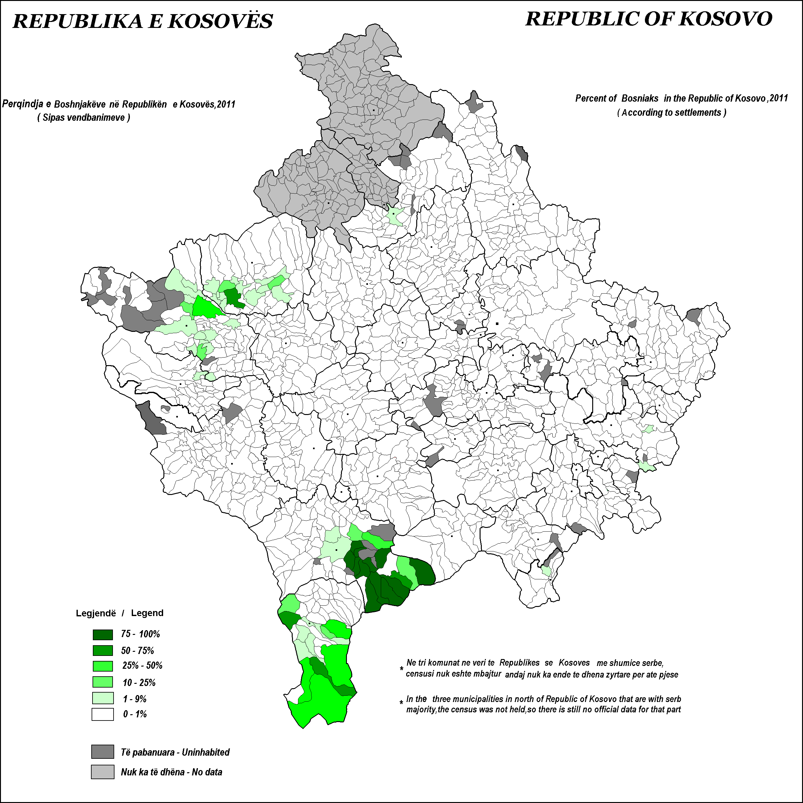 Bosniaks in Kosovo by settlements according to the 2011 census